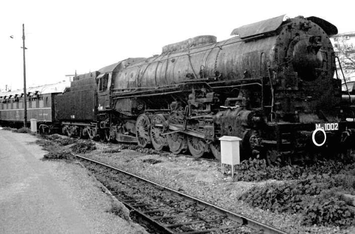 GREECE: Ansaldo/Breda SEK class Μα steam locomotive ΜΑ-1002 on display at Rouf Station.